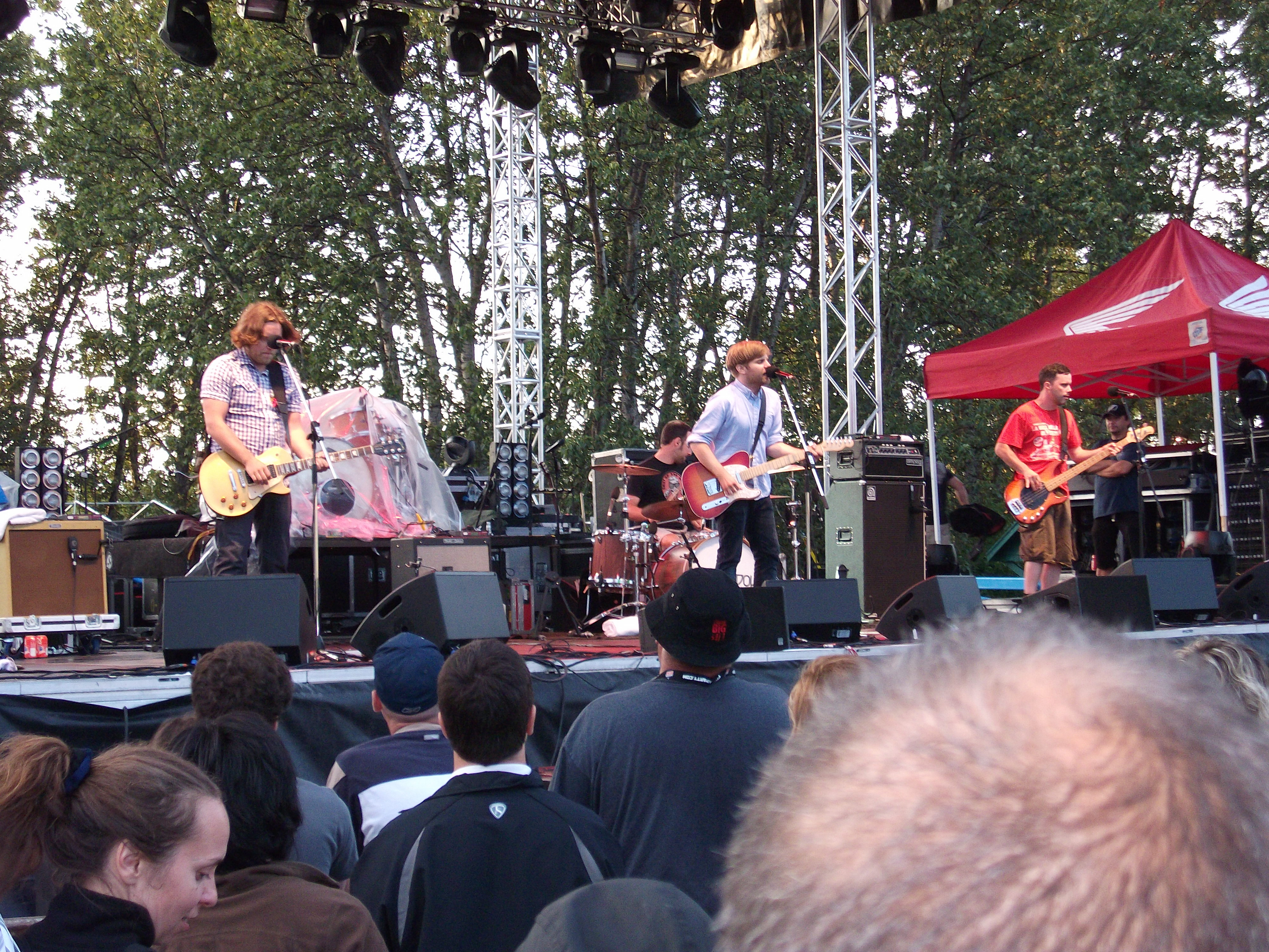 Les Trois Accords at Rimouski for "Les Grandes Fêtes du St-Laurent"